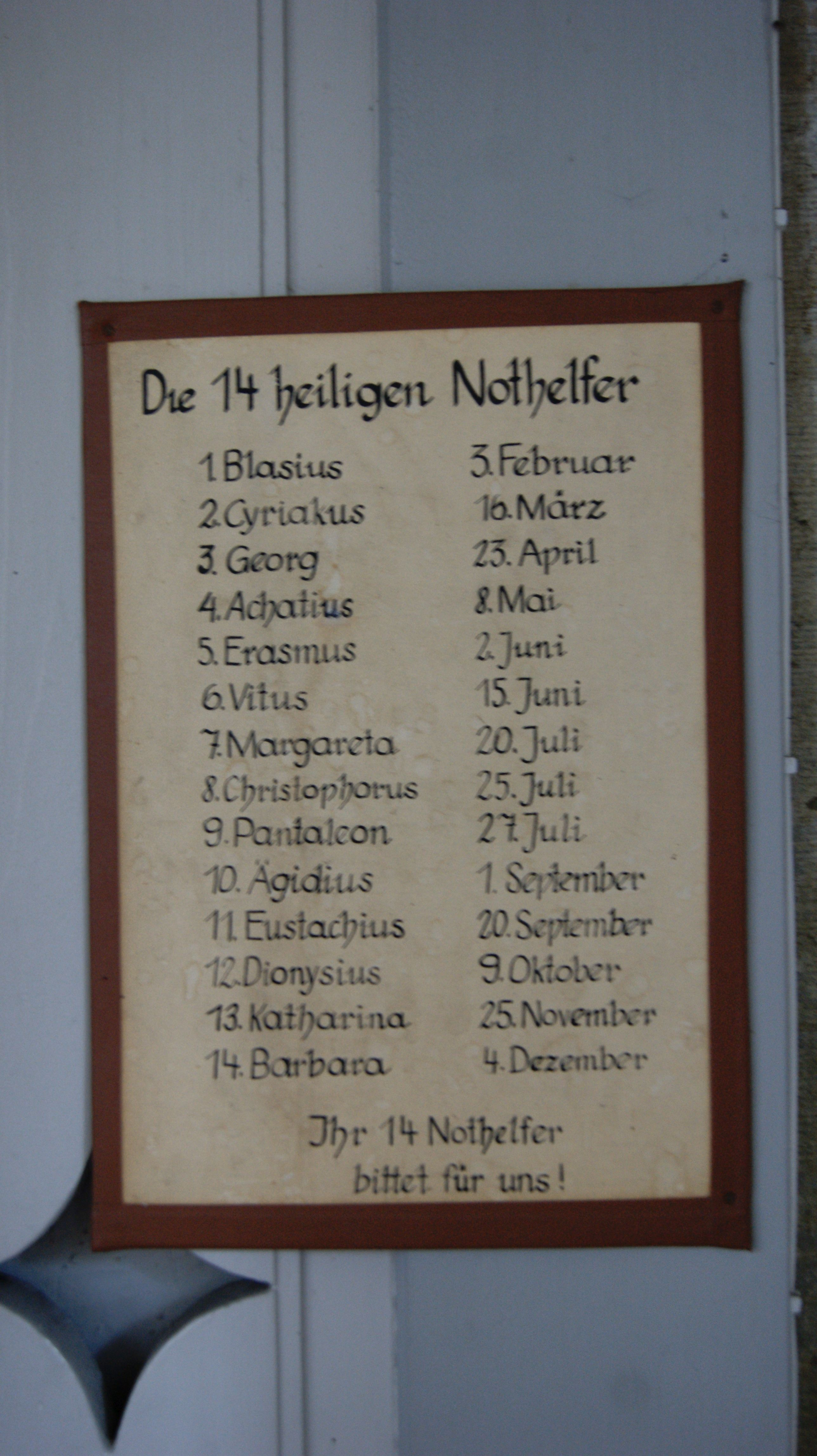 Chapel of the Holy Trinity and 14 helpers (Haselstauden) Kehlerstraße no 75a (Kehlen) in Dornbirn, Vorarlberg, Austria. Sign above the 14 Fourteen Holy Helpers.